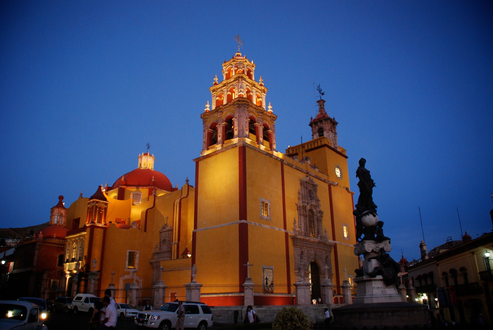 Guanajuato Basilica, Guanajuato, Mexico (Basílica Colegiata de Nuestra Señora de Guanajuato.) The title is incorrect, the church is not a cathedral.